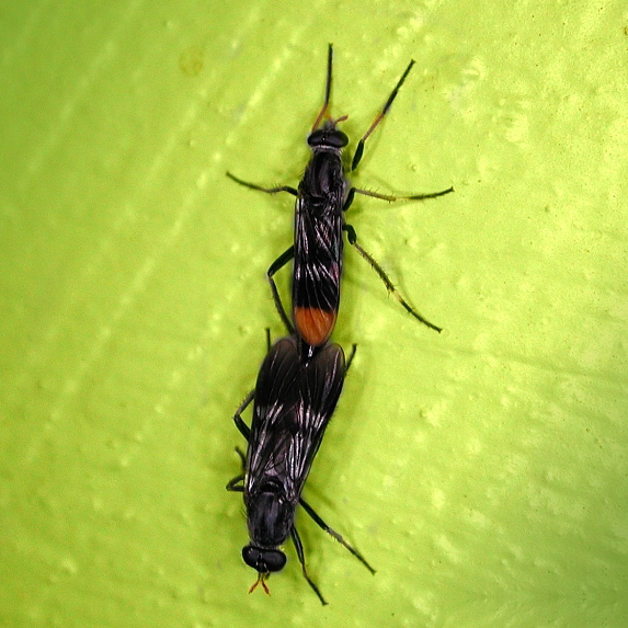 Stilettfliege, Therevidae, Caranavorn National Park, Queensland, Australia